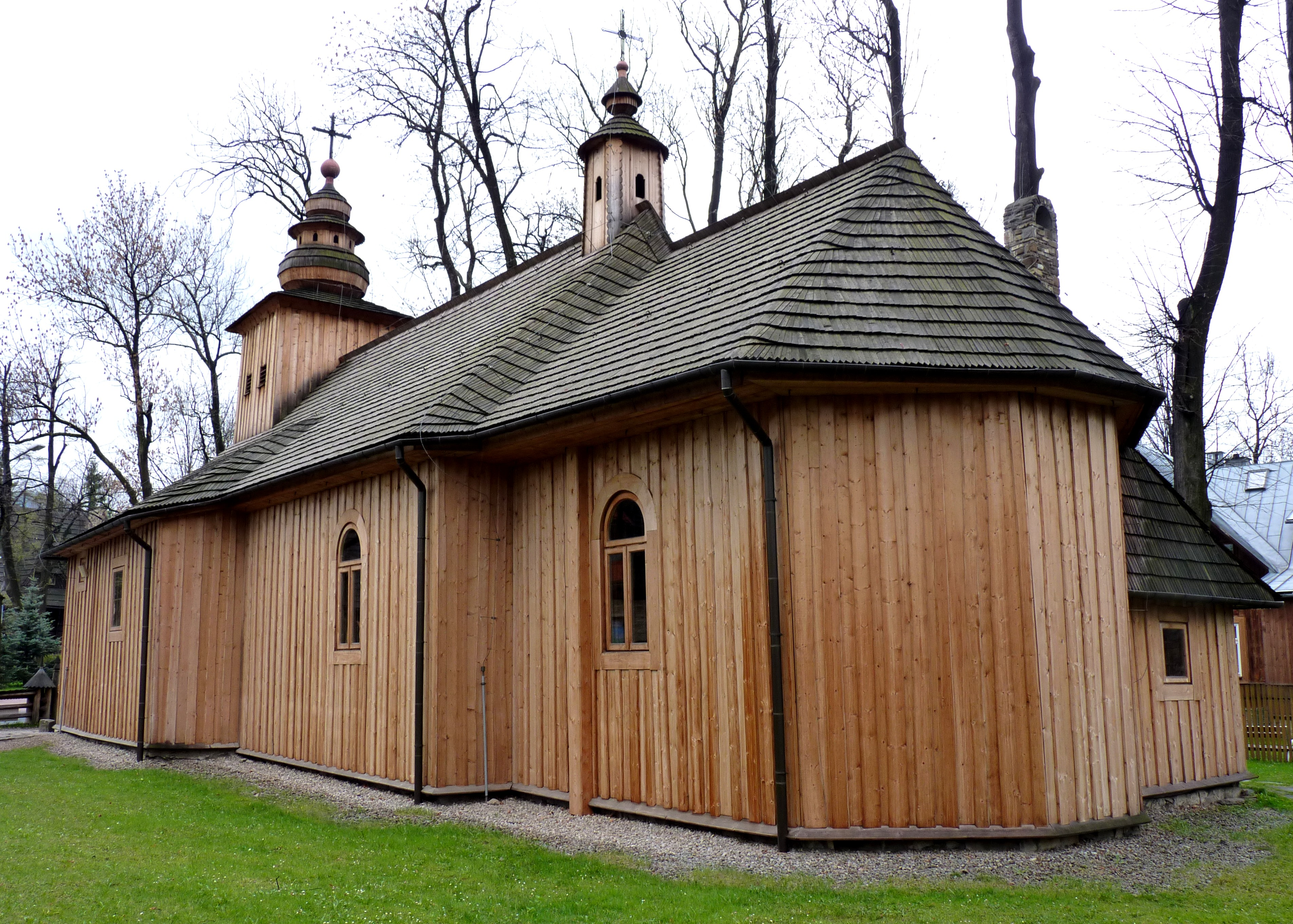 St. Clement's Church in Zakopane.